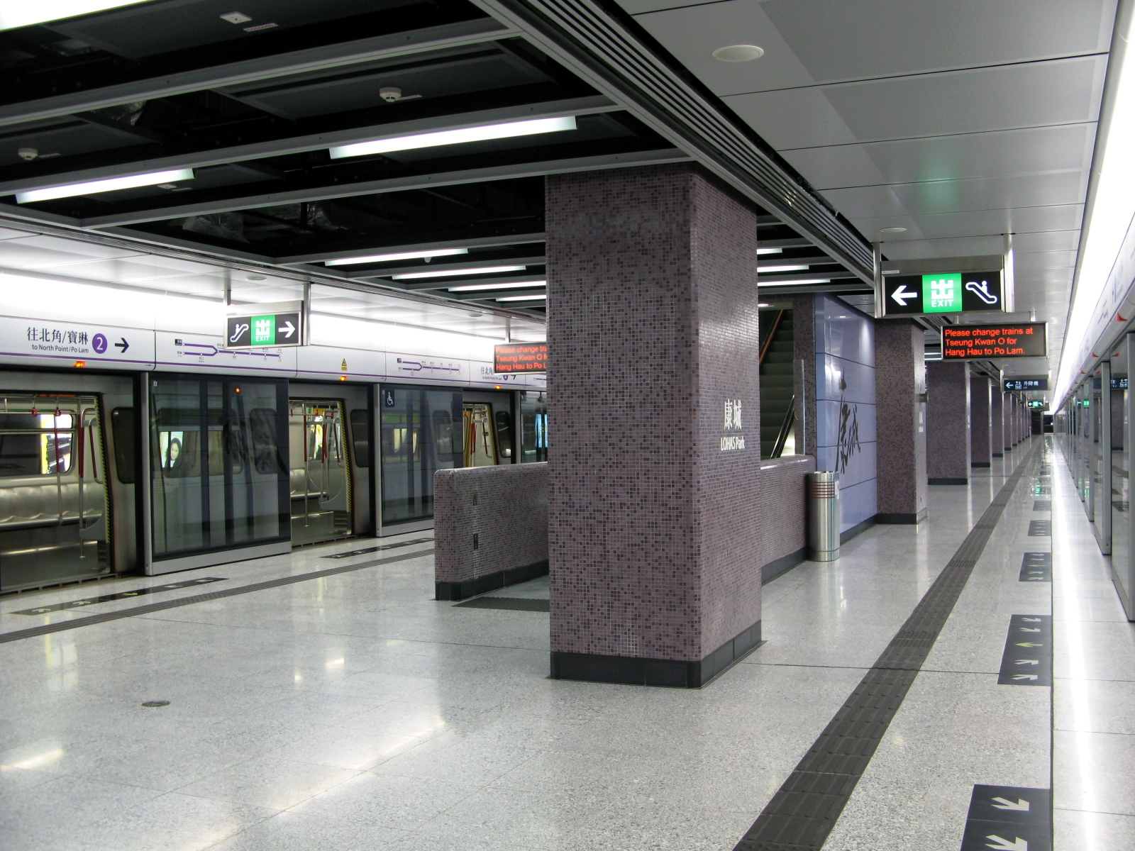 HK Lohas Park Station 康城站 (香港)